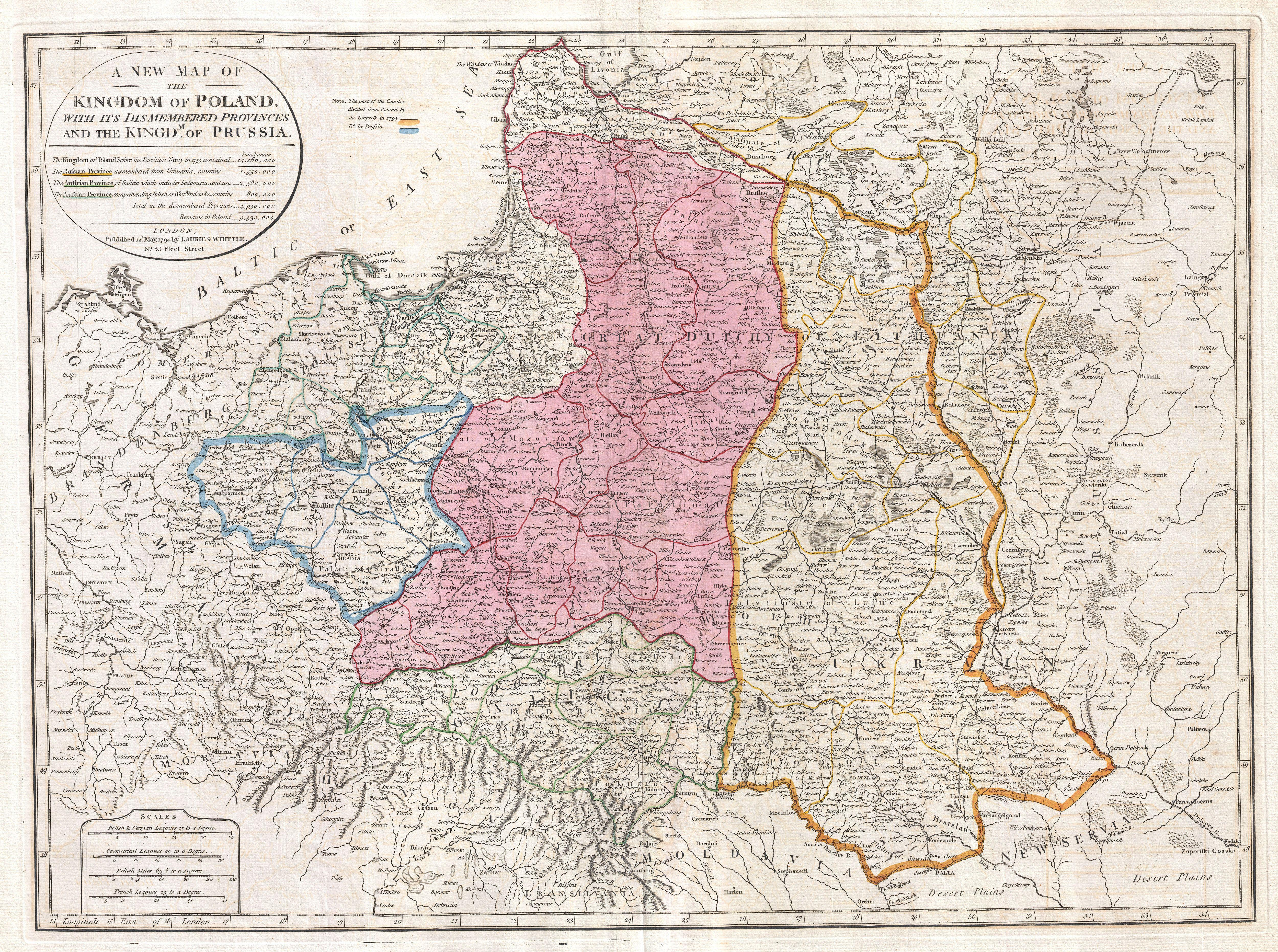 This important 1794 map by Thomas Kitchin depicts the Kingdom of Poland during the brief transitional period between the second and third partitions. Covers from Brandenburg to Russia and from the Gulf of Livonia to Moldova and Hungary, including all of Poland and the Grand Duchy of Lithuania, parts of Prussia, Russia, Livonia, Hungary, Germany and Austria. This map depicts Poland in 1794, immediately following the Second Partition of Poland in 1793. By the mid 18th century Poland, due to an inefficient and corrupt internal bureaucracy, had lost much of its autonomy to its aggressive and powerful neighbors, Russia, Austria and Prussia. The First Partition occurred in 1772 with Prussia occupying Poland's long coveted western territories, Austria seizing Galicia, and Russia taking part of Livonia. In the aftermath of the First Partition, the Second Partition was almost inevitable. Poland allied with Prussia to thwart the ambitions of Russia in the East. This, along with a number of other factors, lead to the War in Defense of the Constitution between Poland and Russia. Largely abandoned by their Prussian allies, Poland could not hope to stand against the powerful Russian military. Poland's defeat resulted in the loss of nearly 50% of its remaining territory to Russia and Prussia, who signed an accord in 1793. One year after this map was made, in 1795, the Third Partition of Poland would dissolve what remained of the reduced Polish-Lithuanian Commonwealth, ending Polish all autonomy in the 18th century. All text is in English. This map was drawn in London by Thomas Kitchin based on an earlier map of the region by D'Anville. Published by Laurie and Whittle in 1794 from their office at 53 Fleet Street, London, England.